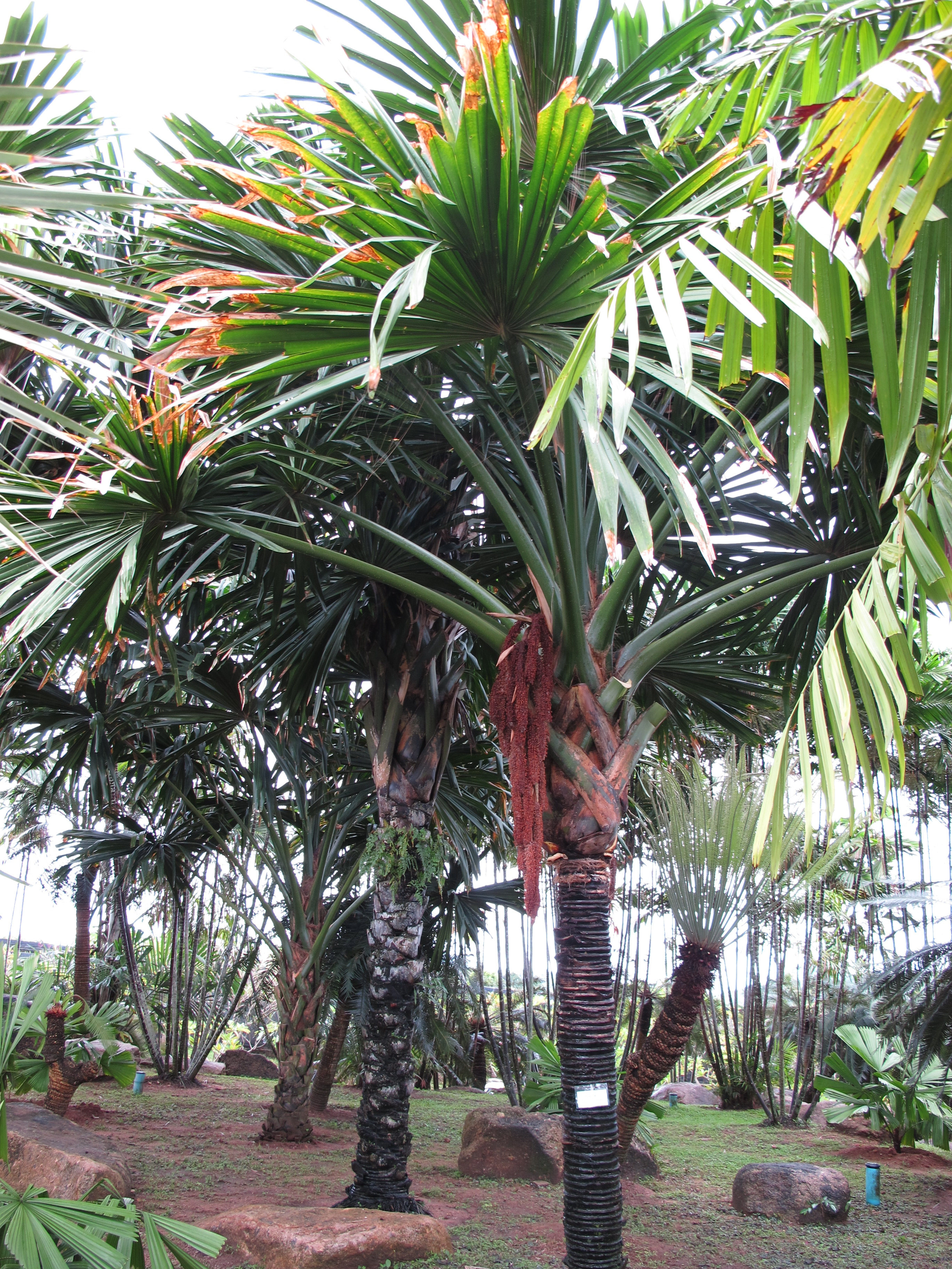 Nong Nooch Tropical Garden, Pattaya, Thailand.